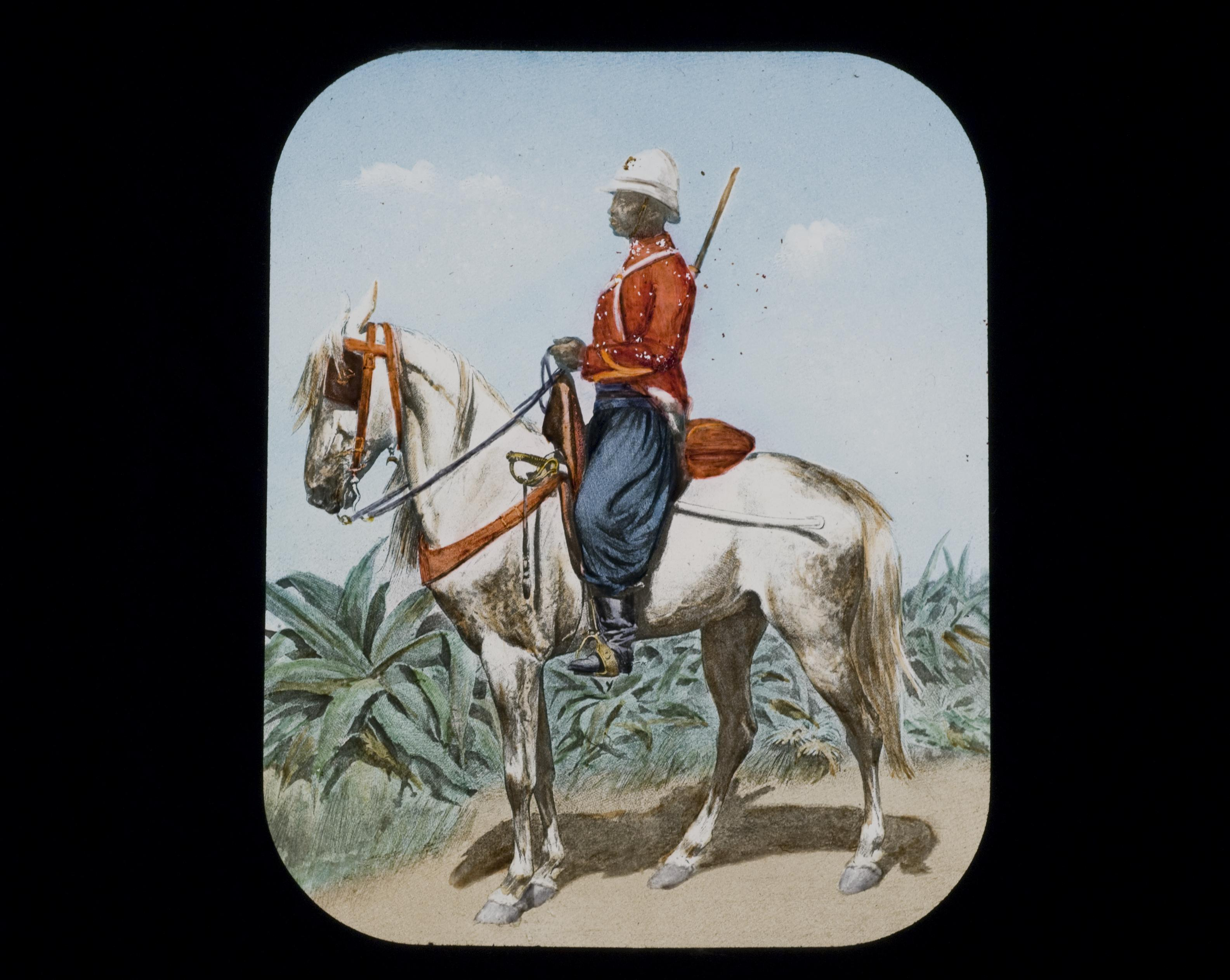 From the Henry Clay Cochrane Collection (COLL/1) at the Marine Corps Archives and Special Collections OFFICIAL USMC PHOTOGRAPH